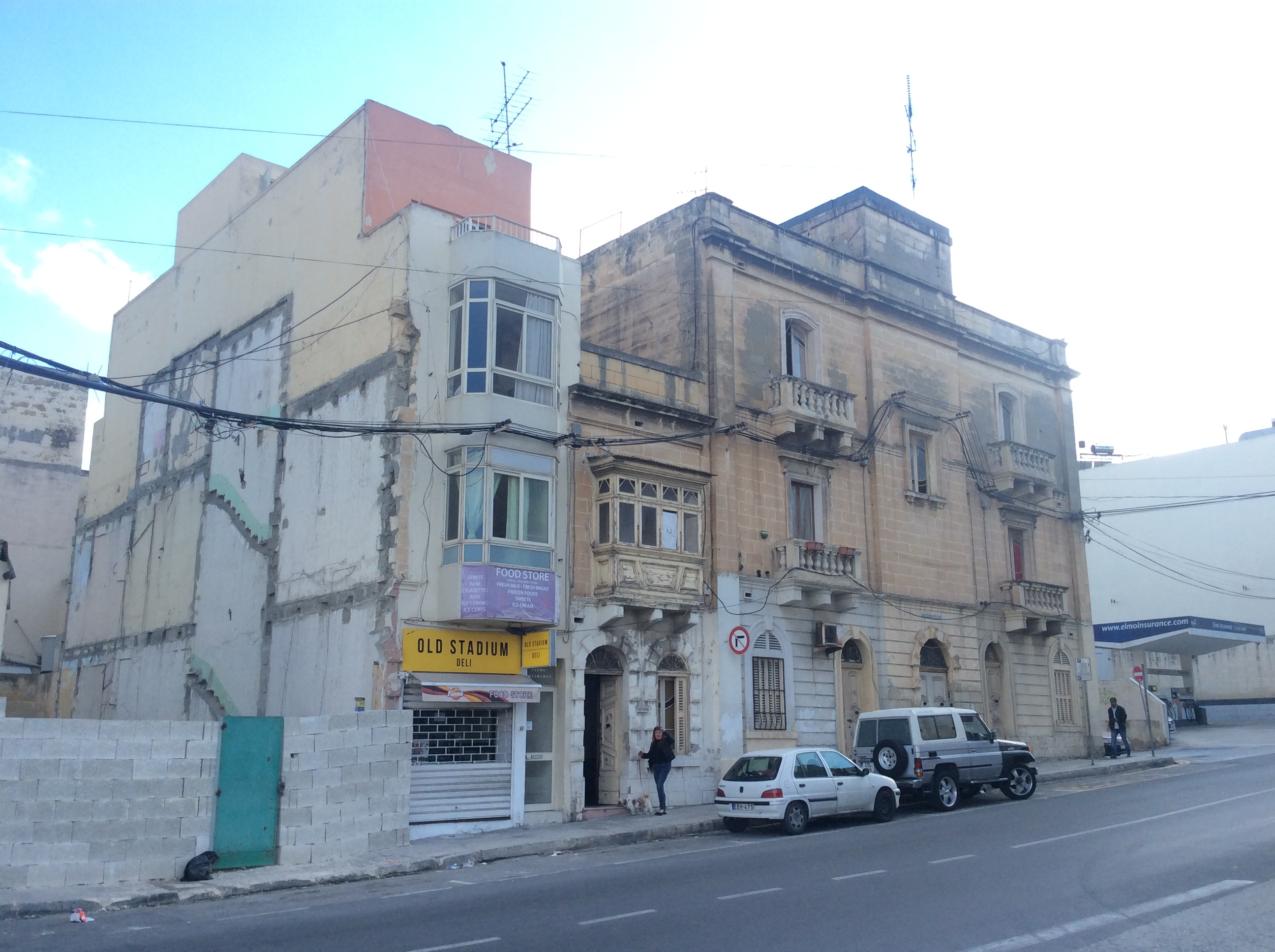 Places in Gzira